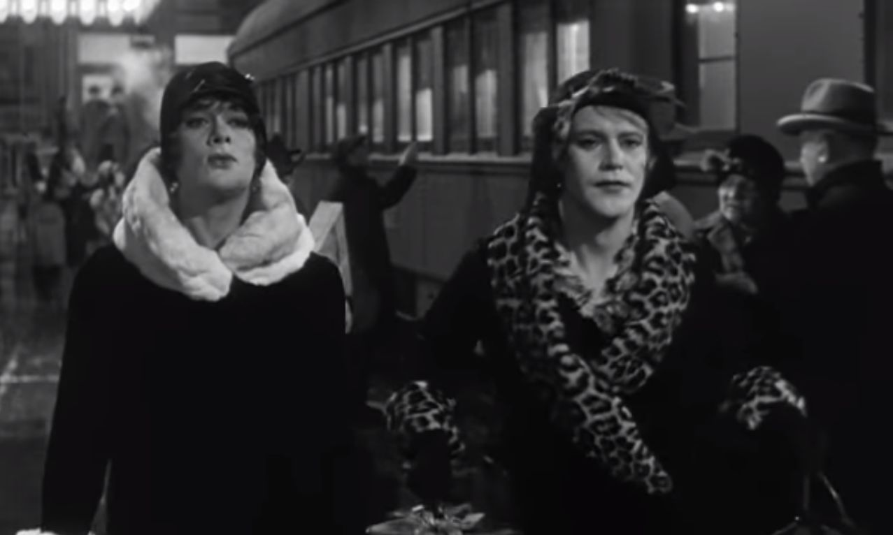 Some Like It Hot trailer screenshot